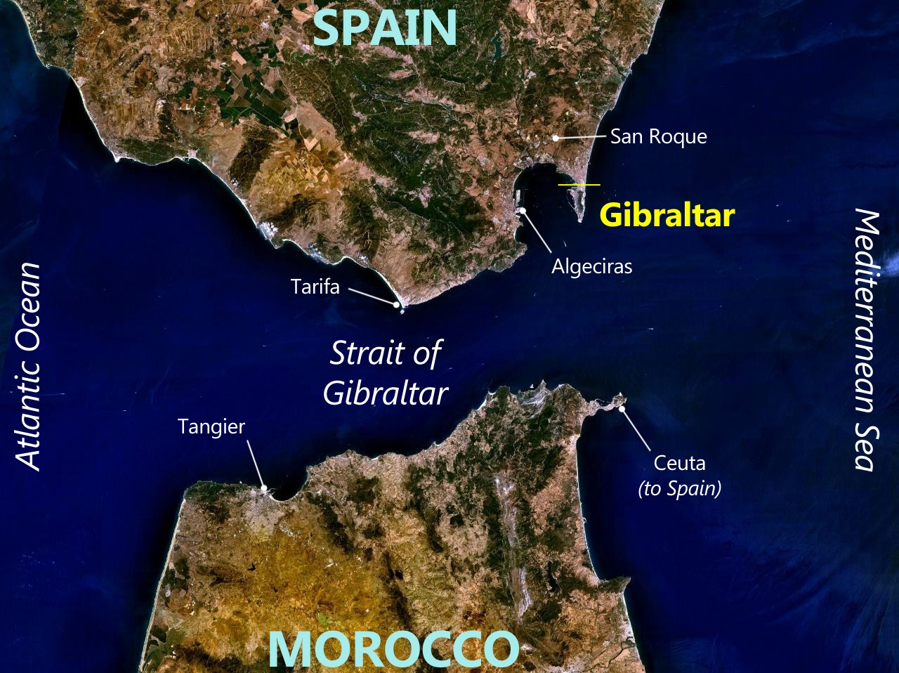 Annotated satellite map of Gibraltar and surrounding area